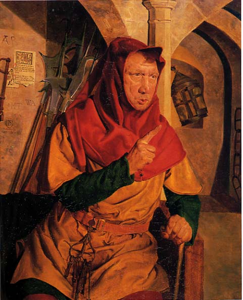 Dogberry Examining Conrade and Borachio, from Much Ado About Nothing (Shakespeare)